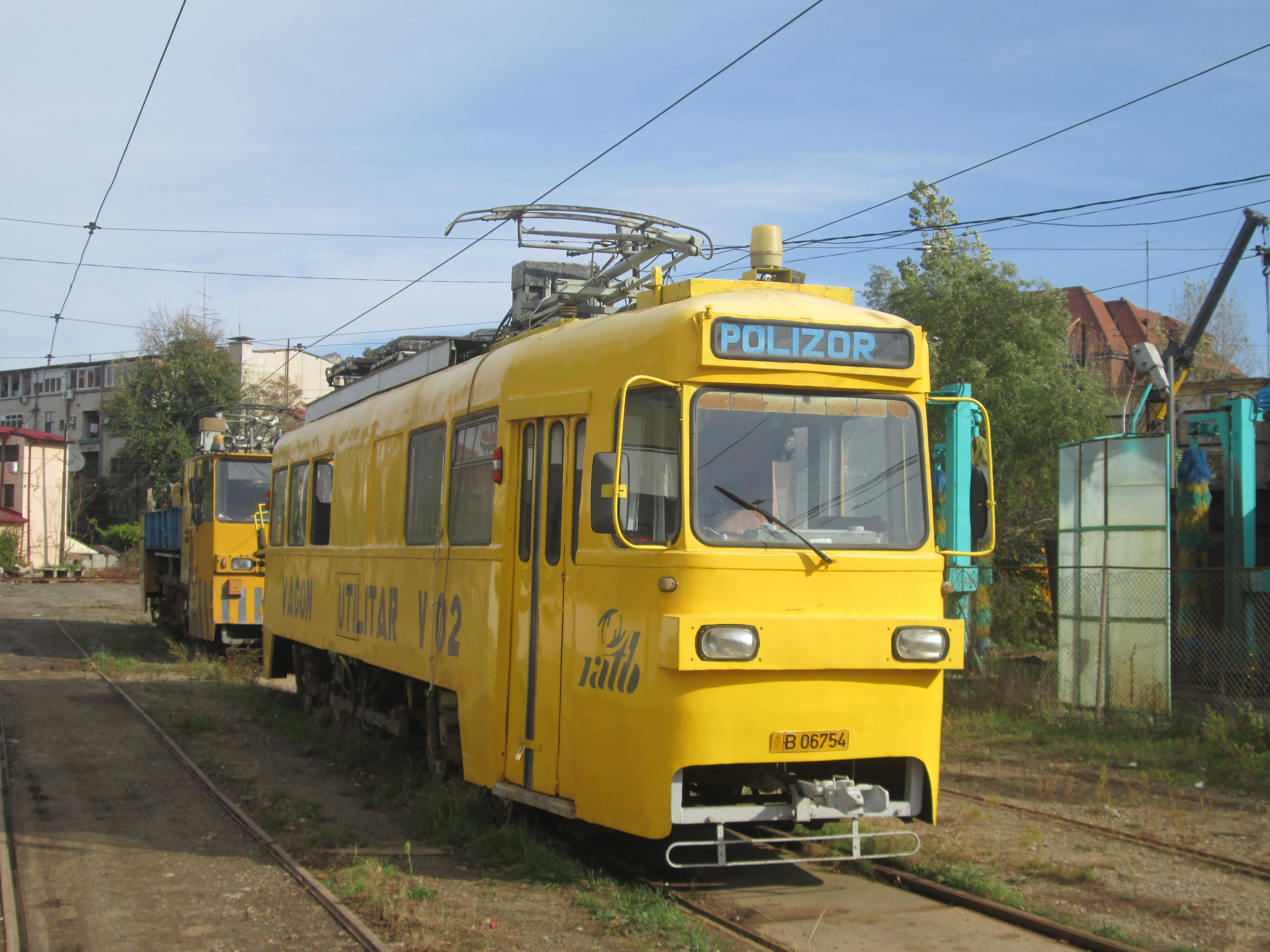 Track grinder type EP/V3A of RATB in Victoria tram depot. Behind it the "dump tram" number 001.